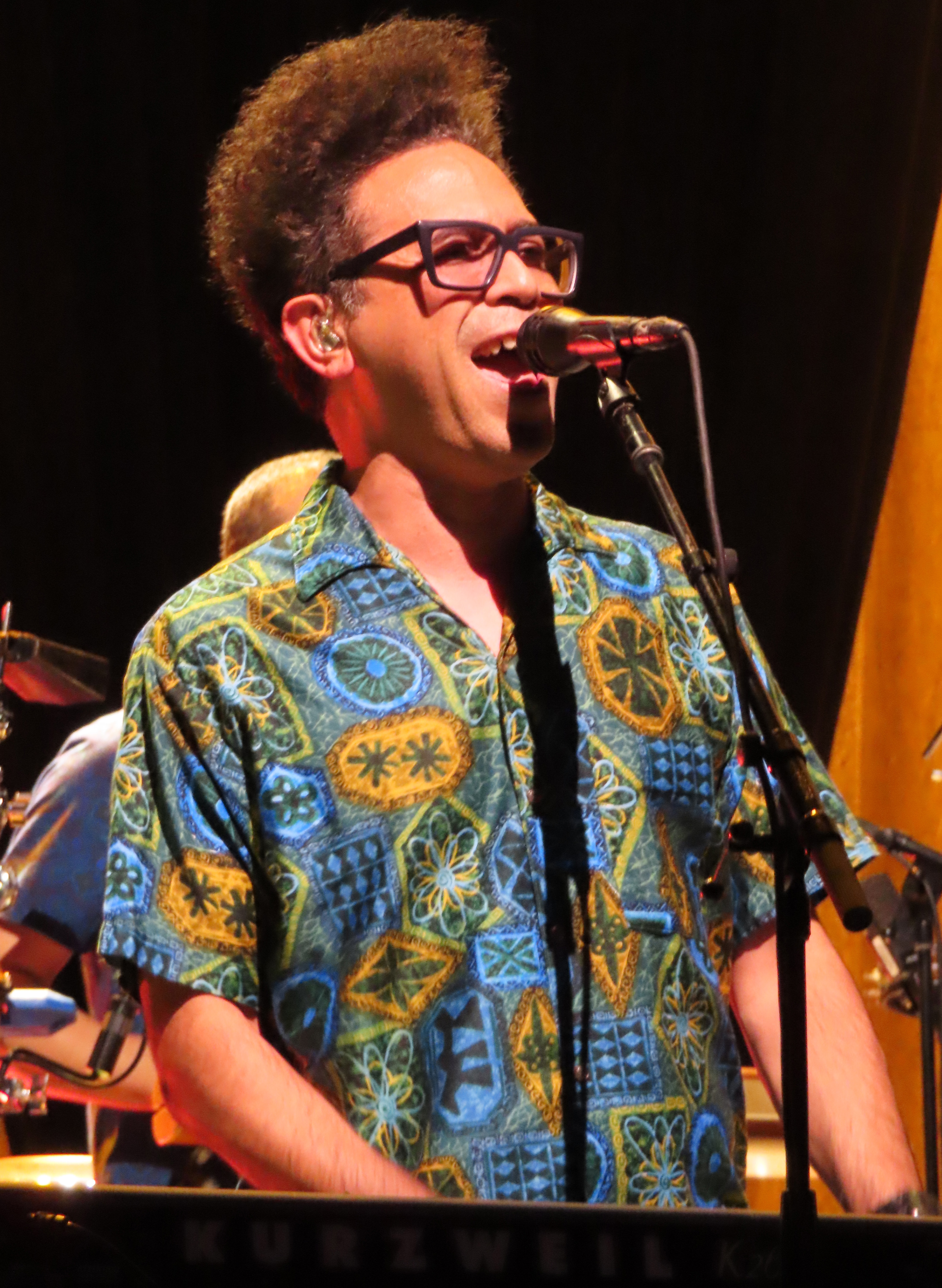 Darian Sahanaja playing with the Brian Wilson Band in September 2019.